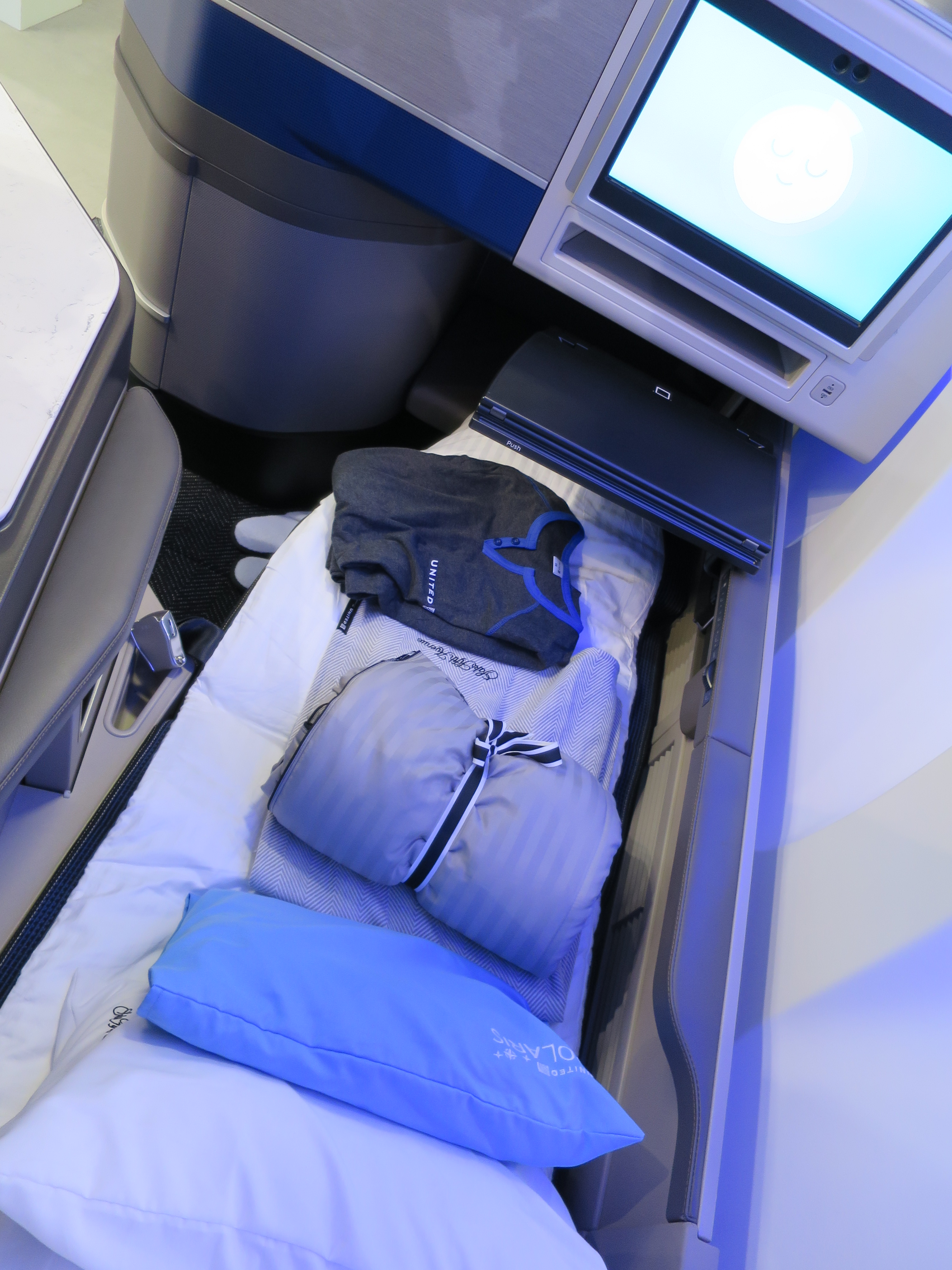 United Airlines ITB 2017.